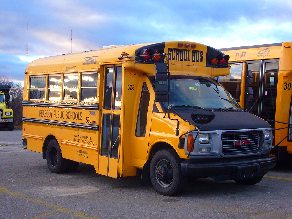 A Thomas Minotour school bus.